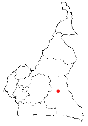 Bertoua, Cameroon Location Map; created with the GIMP. Made by User:Acntx.